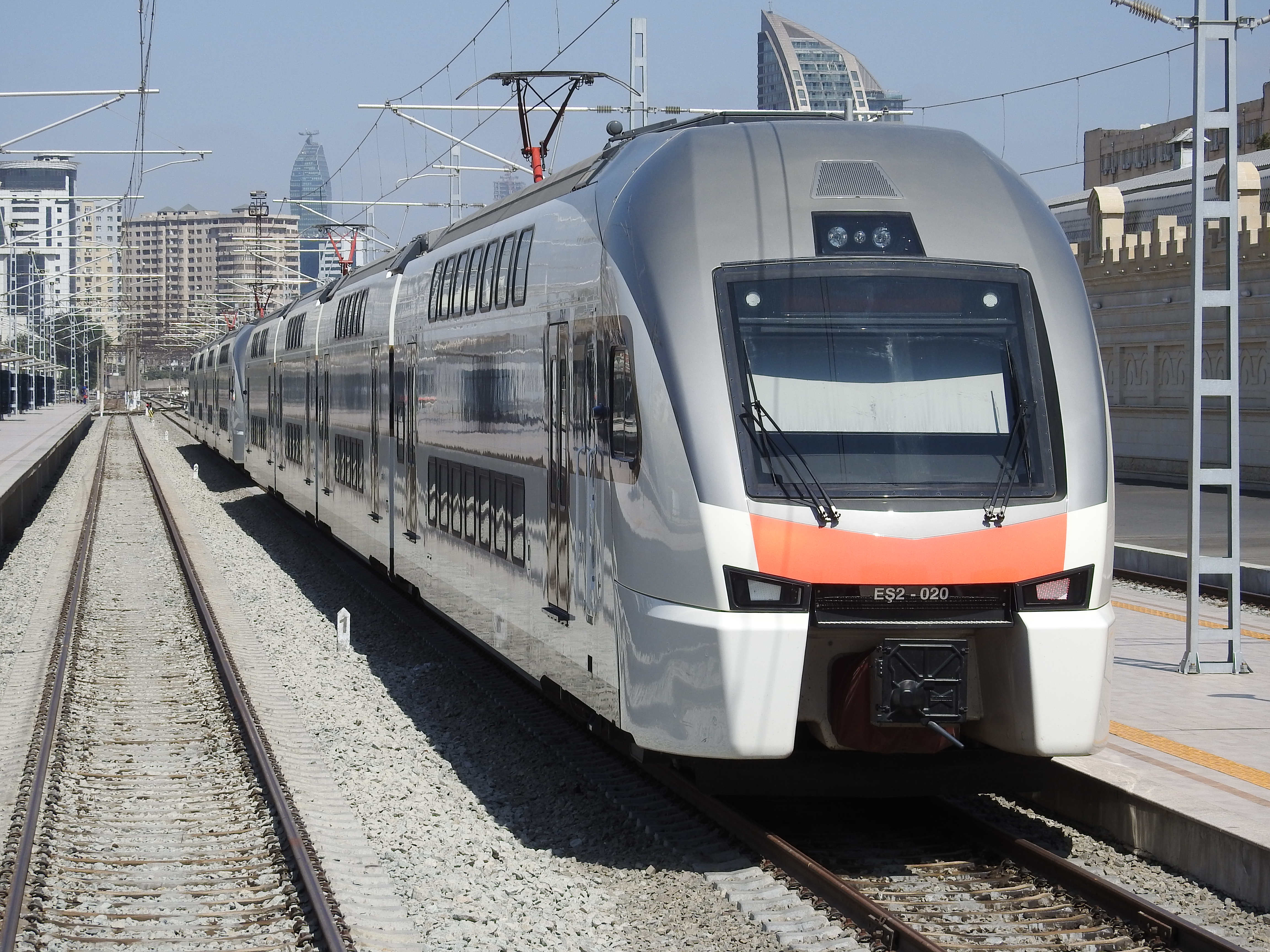 Stadler KISS ES2-020 for Azerbaijan Railways at station in Baku.